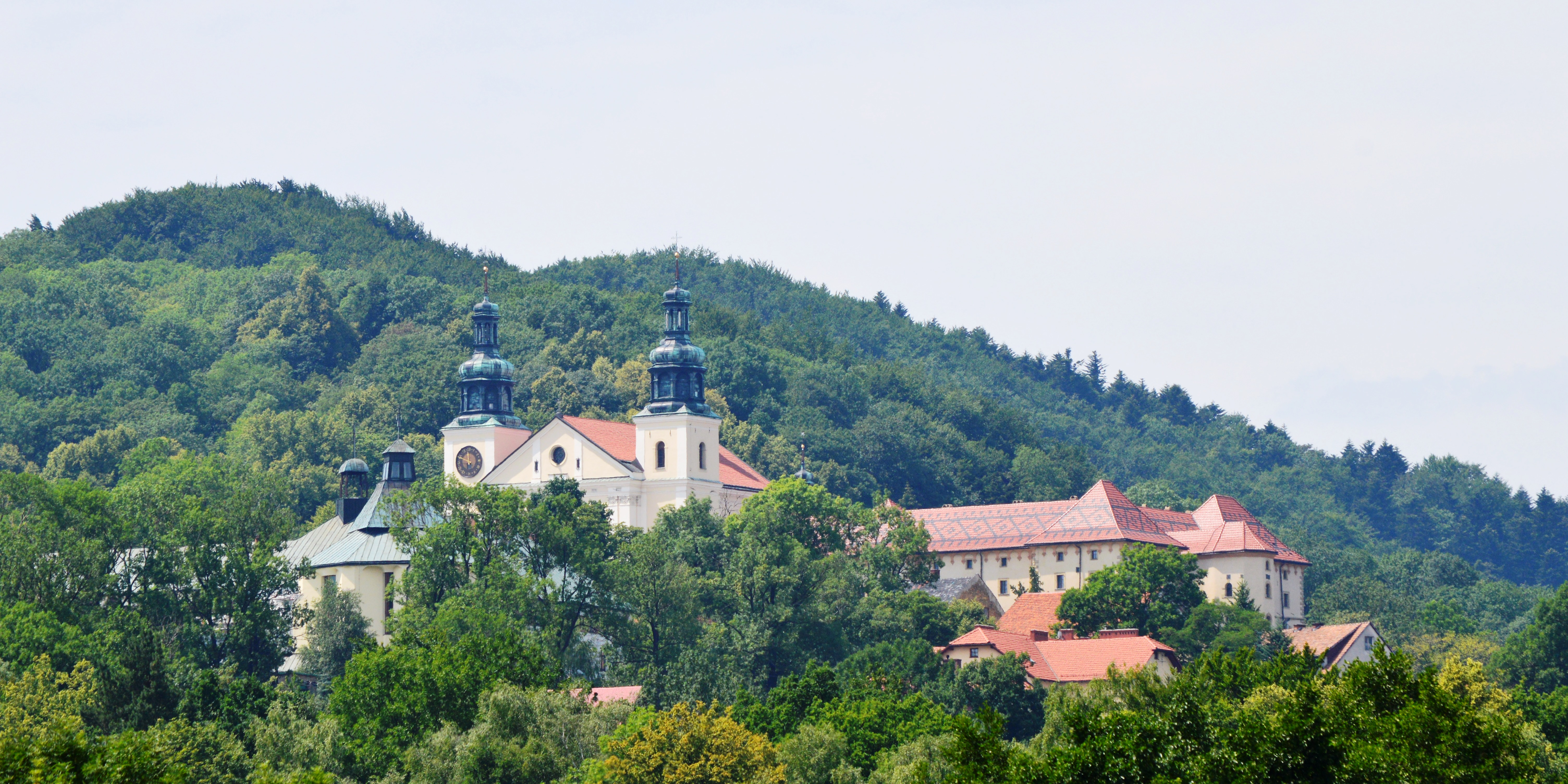 Church and Bernadine Monastery at Kalwaria Zebrzydowska Park Religious Sanctuary. The Scotch Mist Gallery contains many photographs of historic buildings, monuments and memorials of Poland.